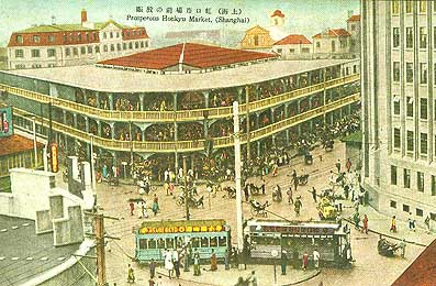 Sanjiaodi Market, Shanghai in the 1930s